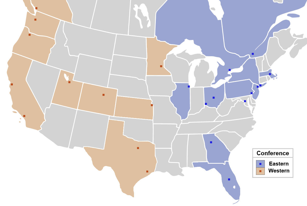 Locations of all Major League Soccer teams for the 2019 season, adding FC Cincinnati.